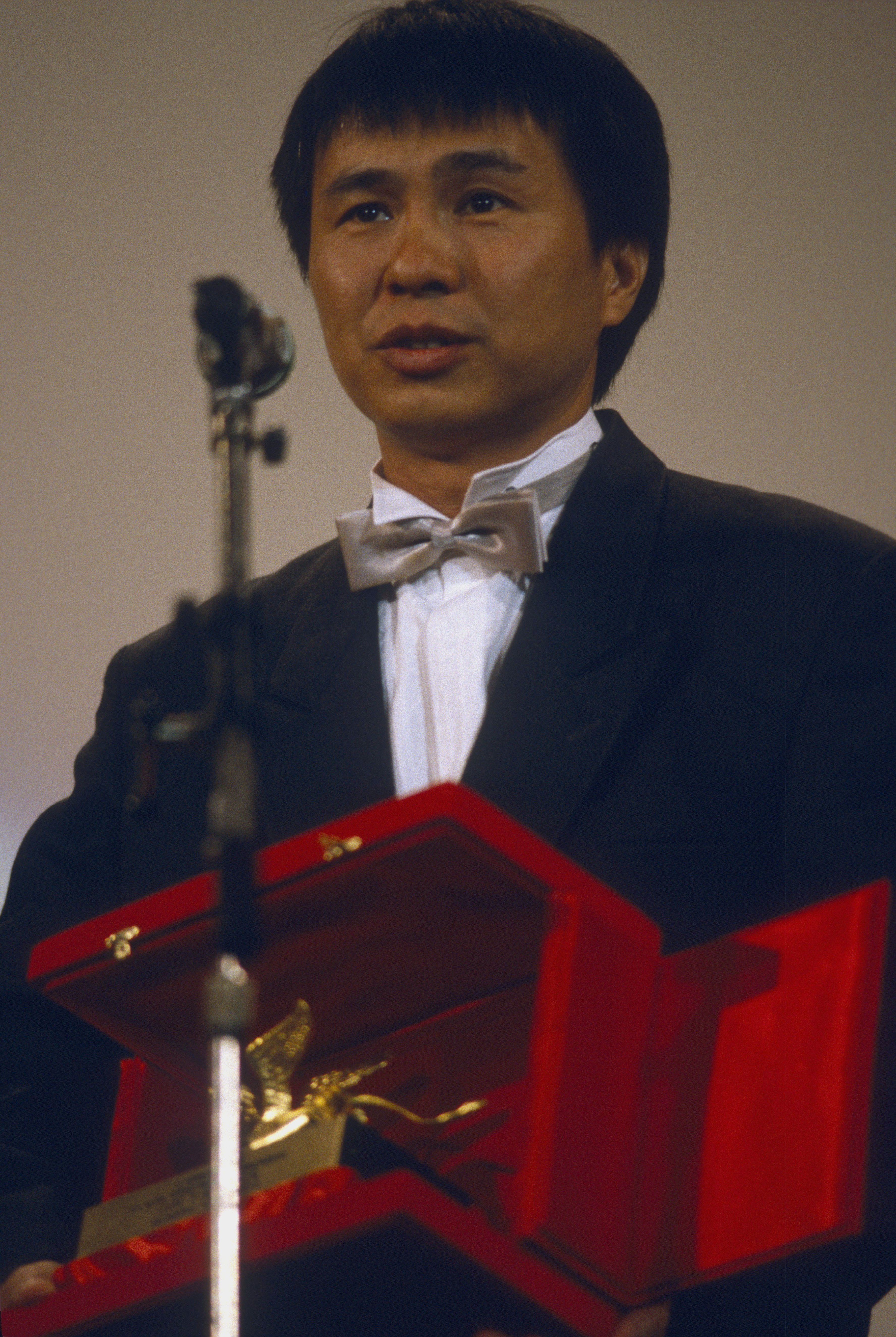 Hou Hsiao-hsien winner of the gold lion at the Venice film festival in 1989